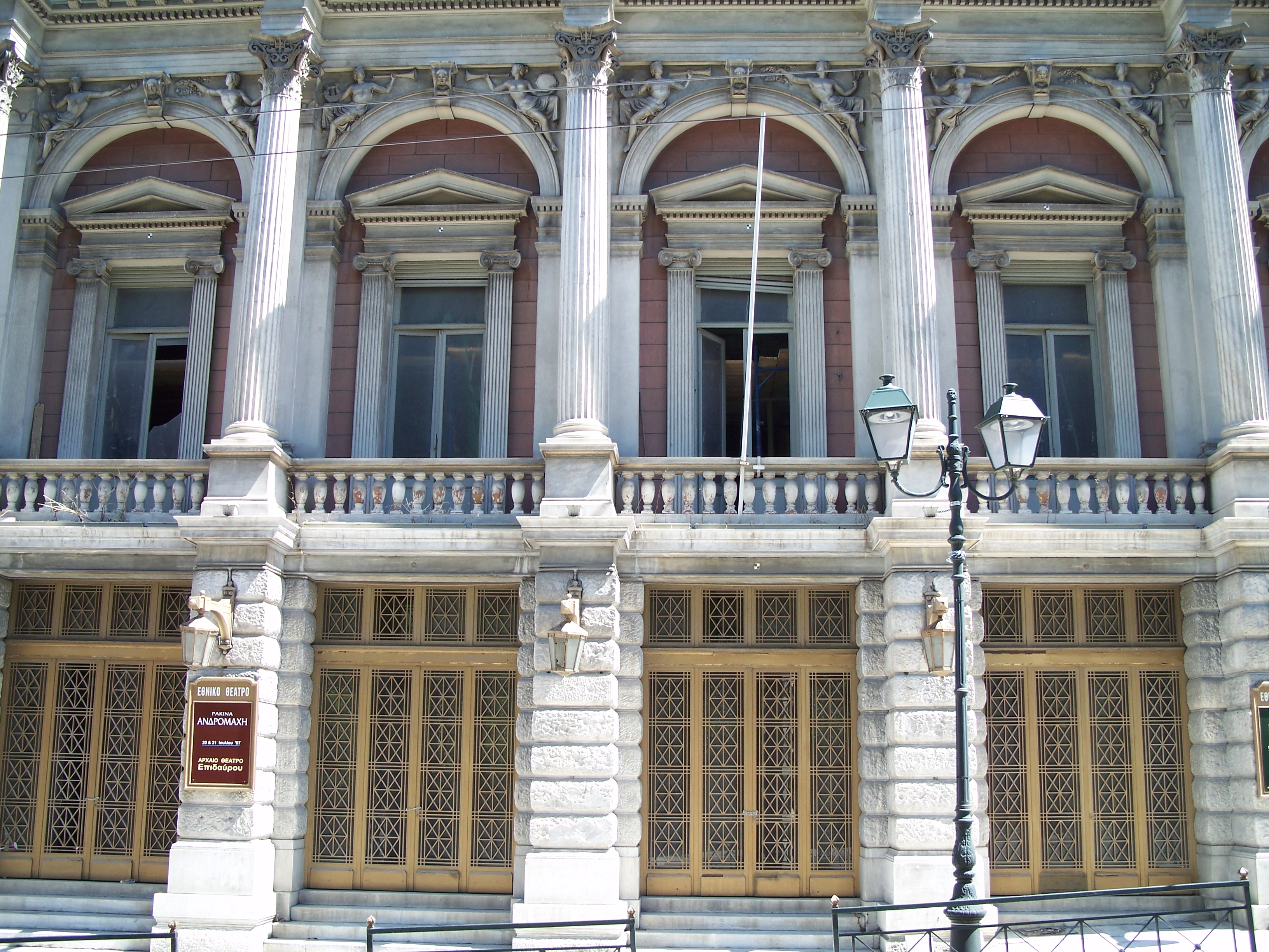 The National Theatre (Εθνικό θέατρο) in Athens, front entrance (during restauration).